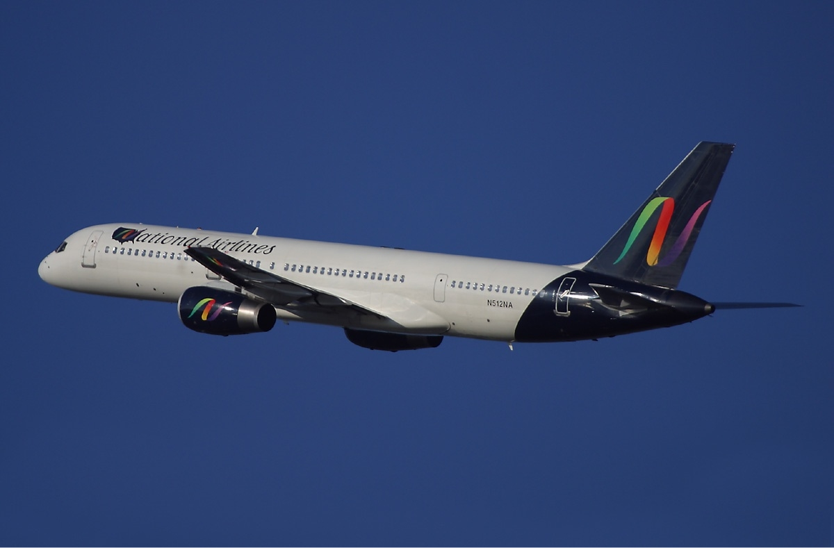 National Airlines Boeing 757-200